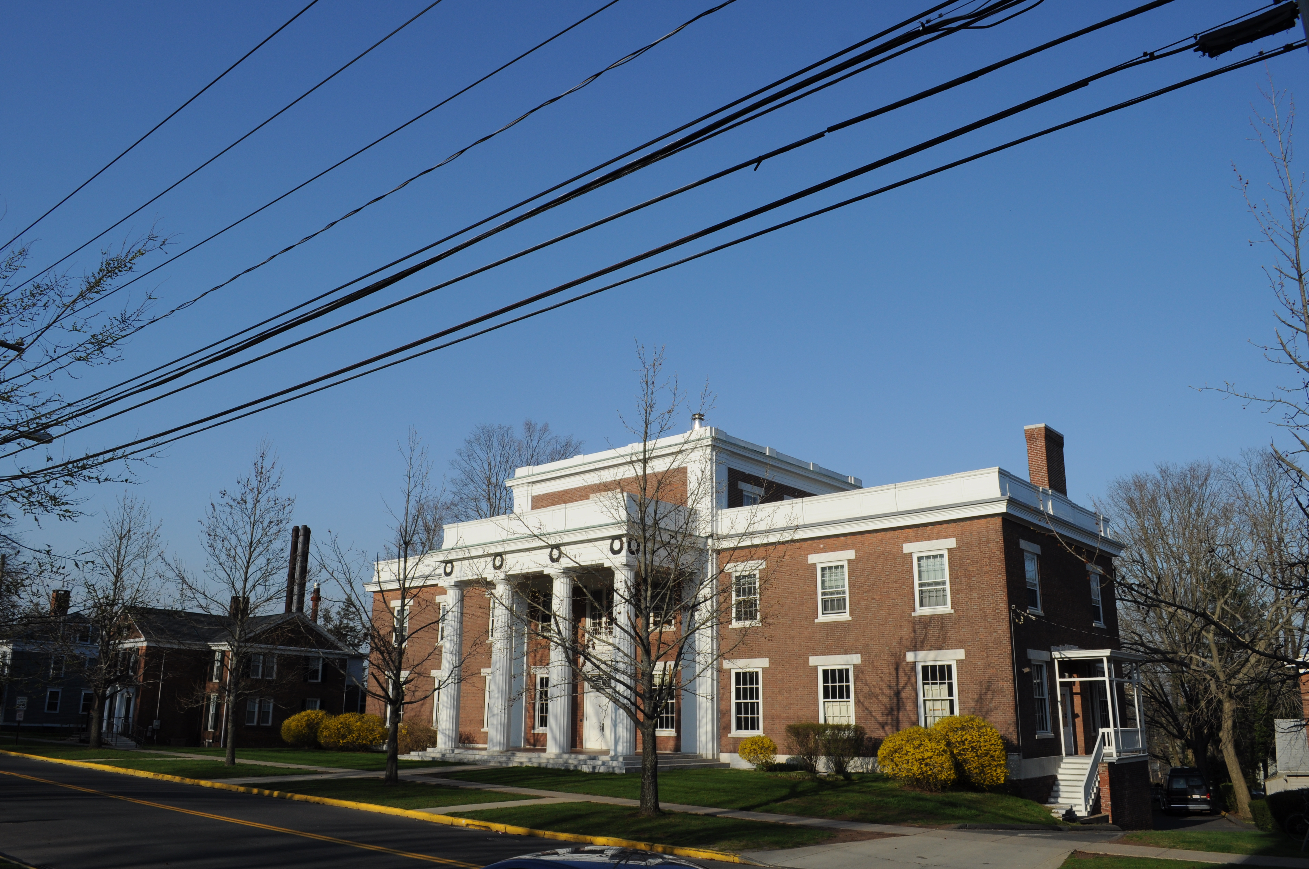 Eclectic, 200 High Street, Wesleyan University, Middletown, Connecticut, USA.